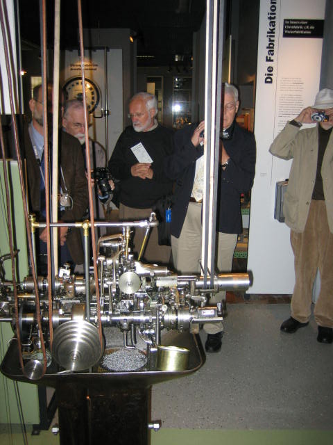 Picture by Fortunat Mueller-Maerki, showing visit of Antiquarian Horological Society USA Section in 2006 to the clockmaking machinery at Uhrenindustriemuseum Villingen Schwenningen